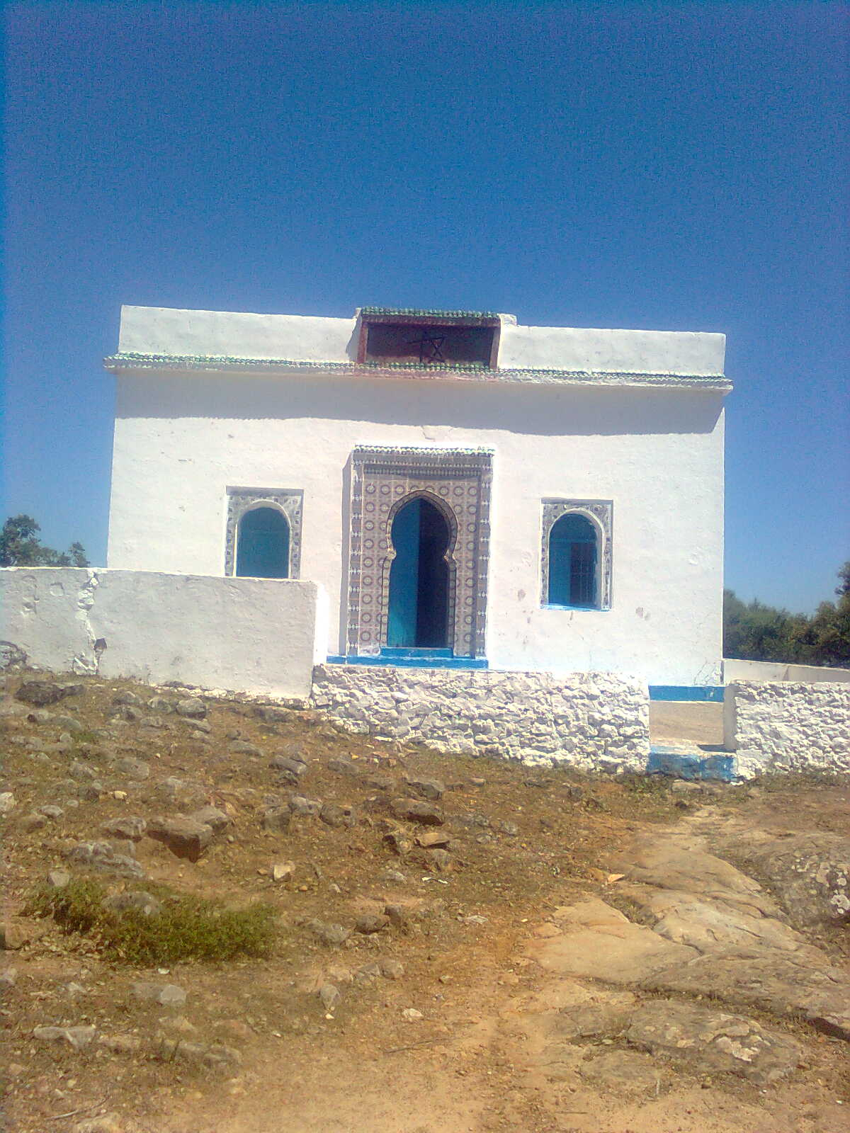 ضريح سيدي مزوار